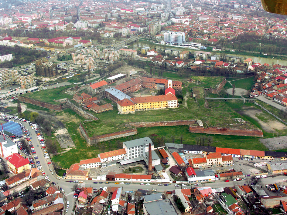 fortress in Oradea, Crișana, Romania.